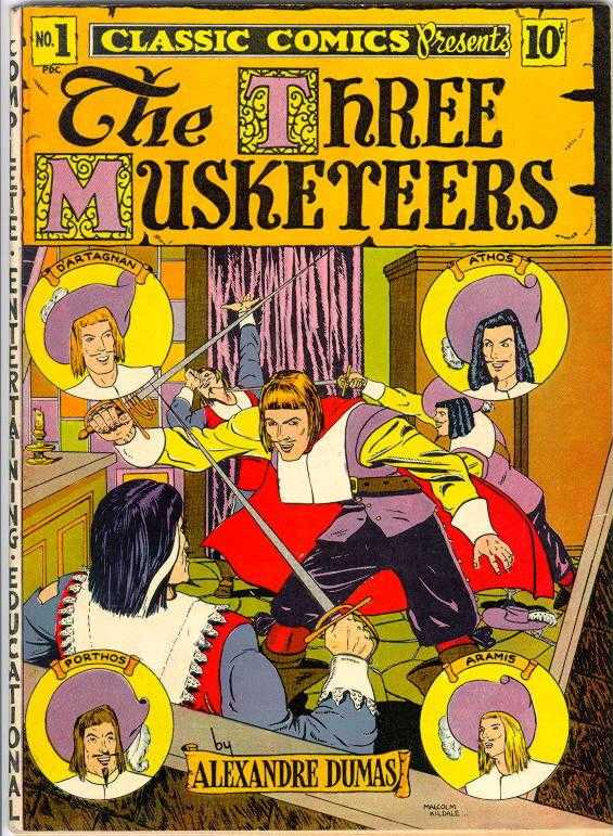 Cover scan of a Classics Comics book